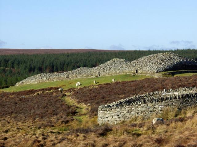 The Grey Cairns of Camster. These cairns are open to the public, but mind your head! Also can you please be sure to shut the gates again after you.